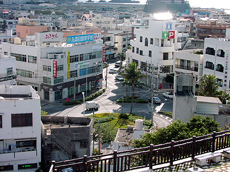 Downtown Itoman, Okinawa.